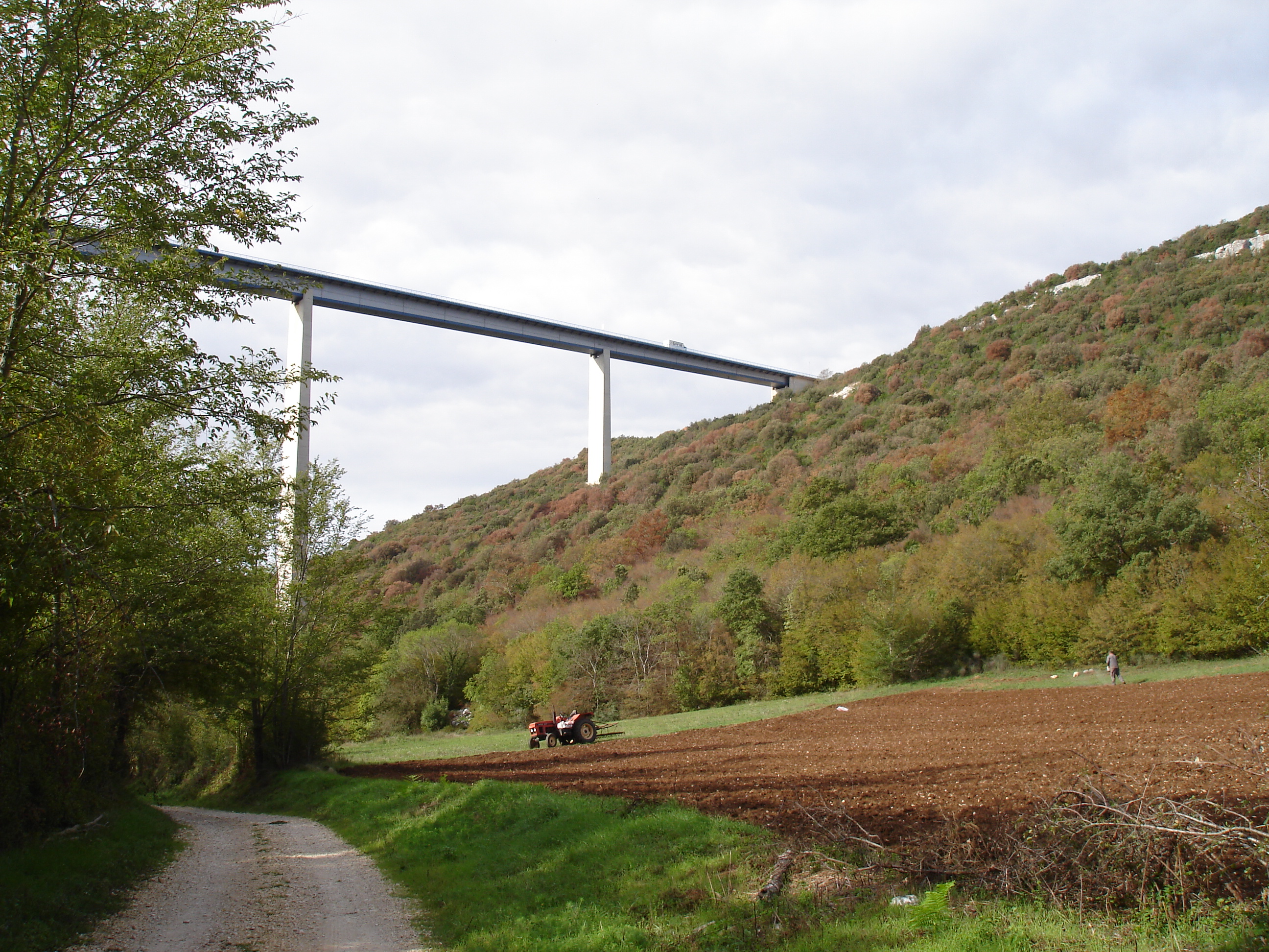 Tillage in Lim canyon valley, Croatia, a view towards SW